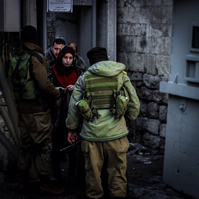 Israeli forces continue the policy of checking nearly everyone that passes through checkpoint 56 in Hebron. The checkpoint passes from one Palestinian neighborhood to another.